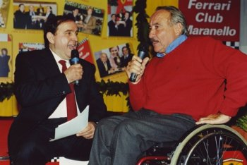 Clay Regazzoni (on the right) being interviewed